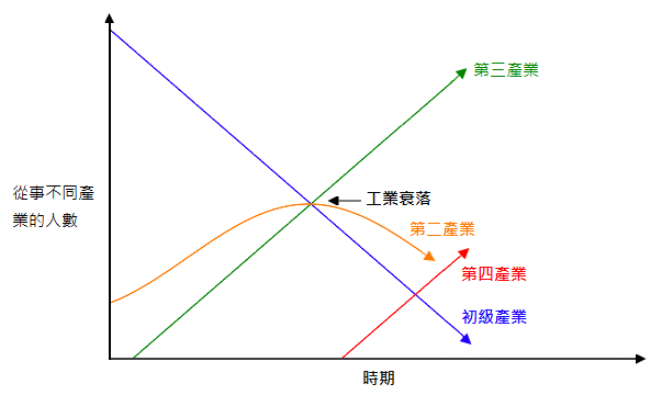 sector model